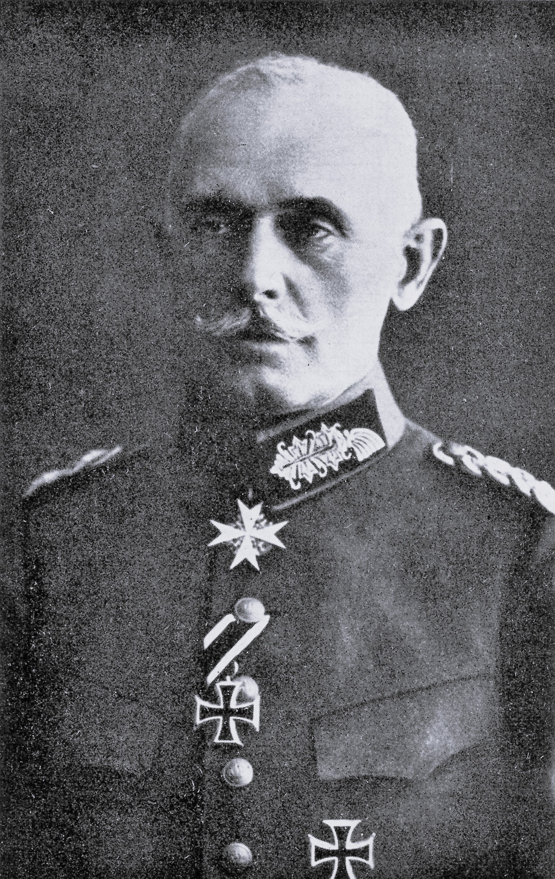 Prussain Infantry General Julius Riemann